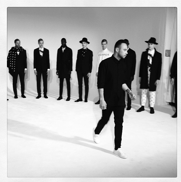 Carlos Campos Fall/Winter 2014